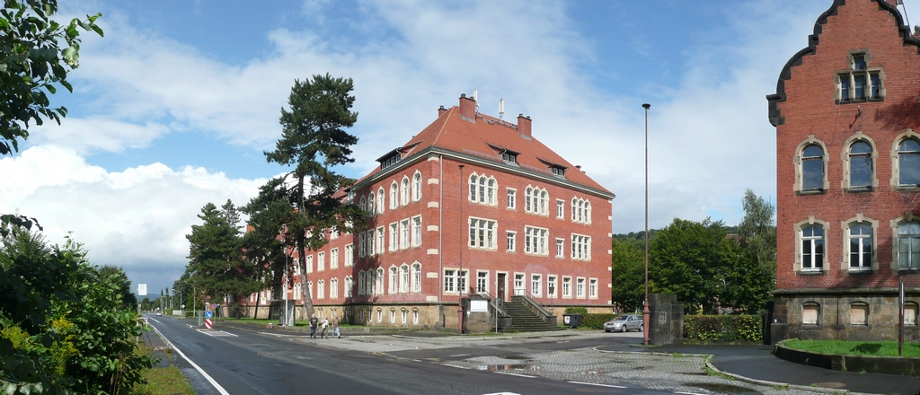 Pirna-Südvorstadt: view on the "red barracks", built 1906/1906.